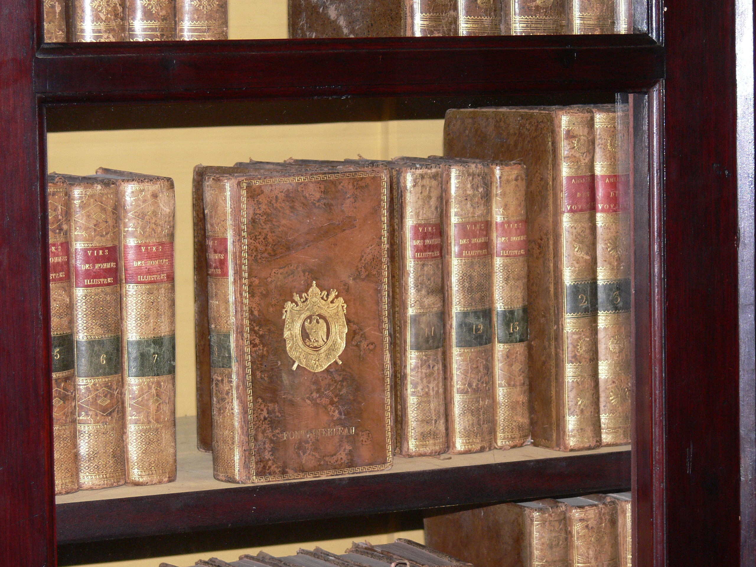 Portoferraio on Elba. Villa Mulini: Books in Napoleons library.